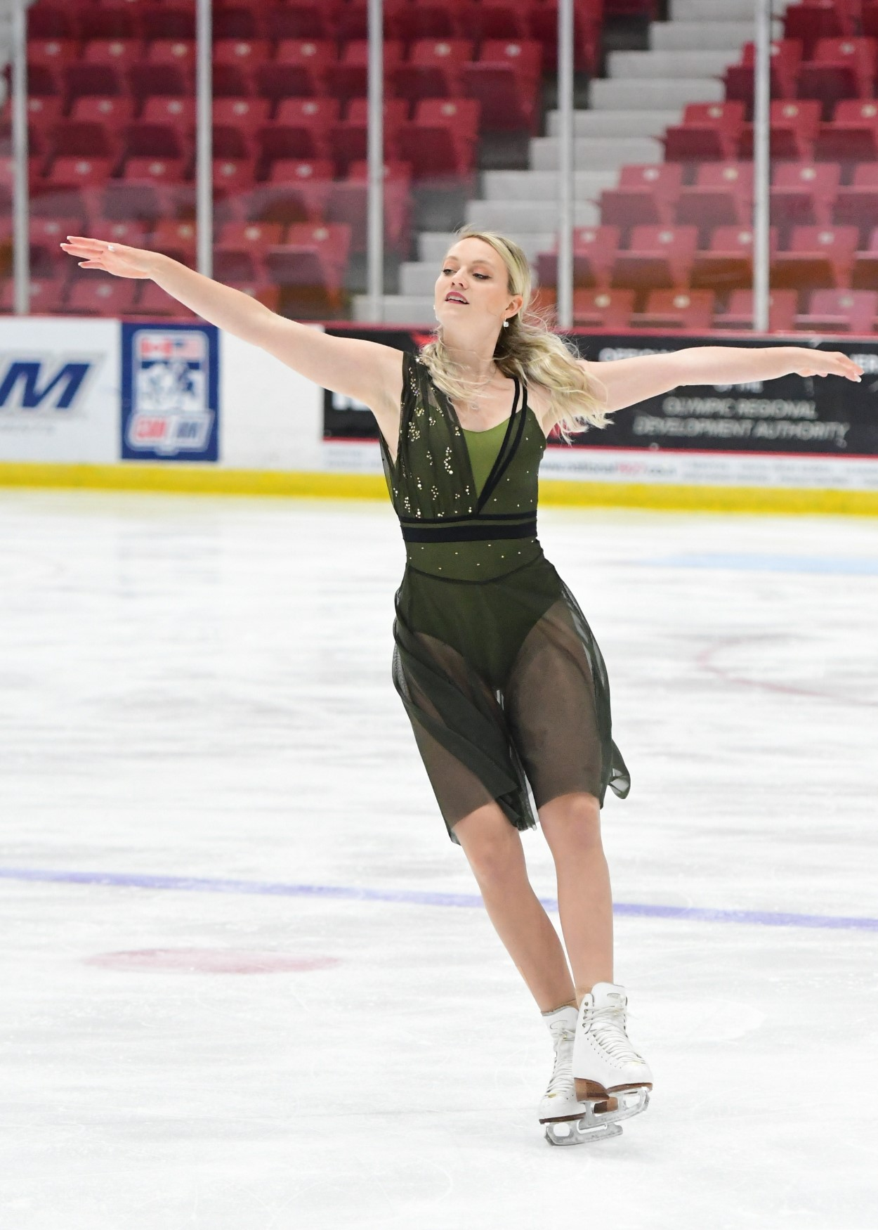 Julia Gretarsdottir FD Lake Placid 2019